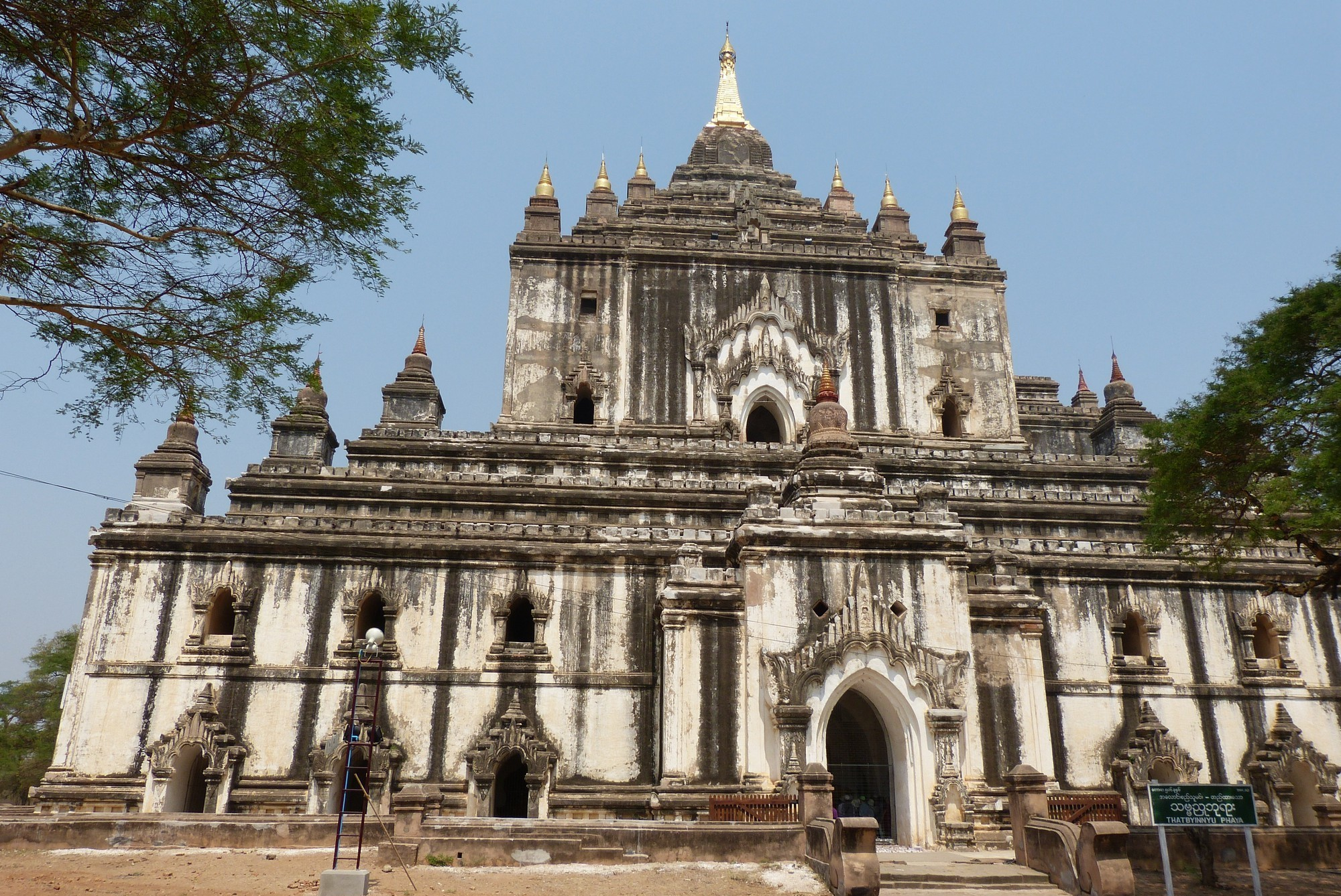 Bagan